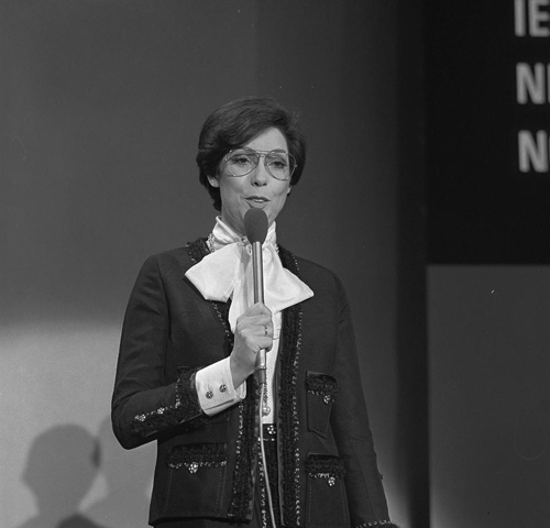 Host Corry Brokken at a rehearsal for the Eurovision Song Contest 1976.